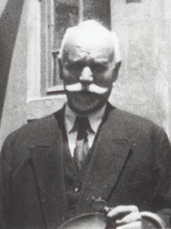 Bulgarian sculptor Zheko Spiridonov, circa 1935